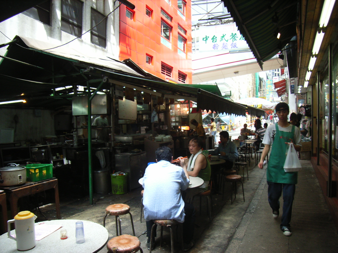 Stanley Street (史丹利街), Central, Hong Kong by TangHon